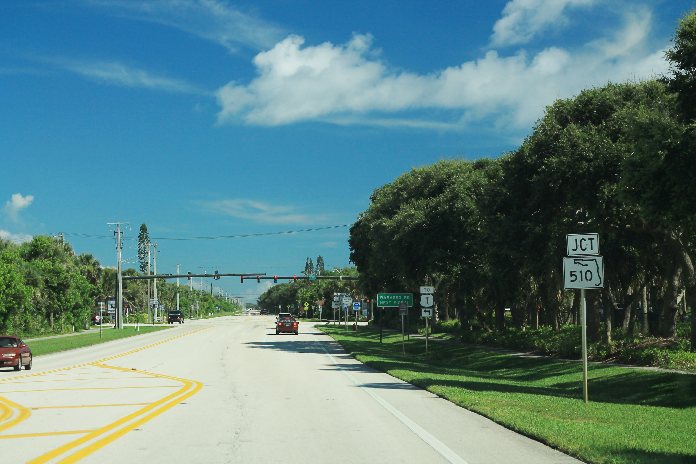 A1A North - Jct FL510 Sign